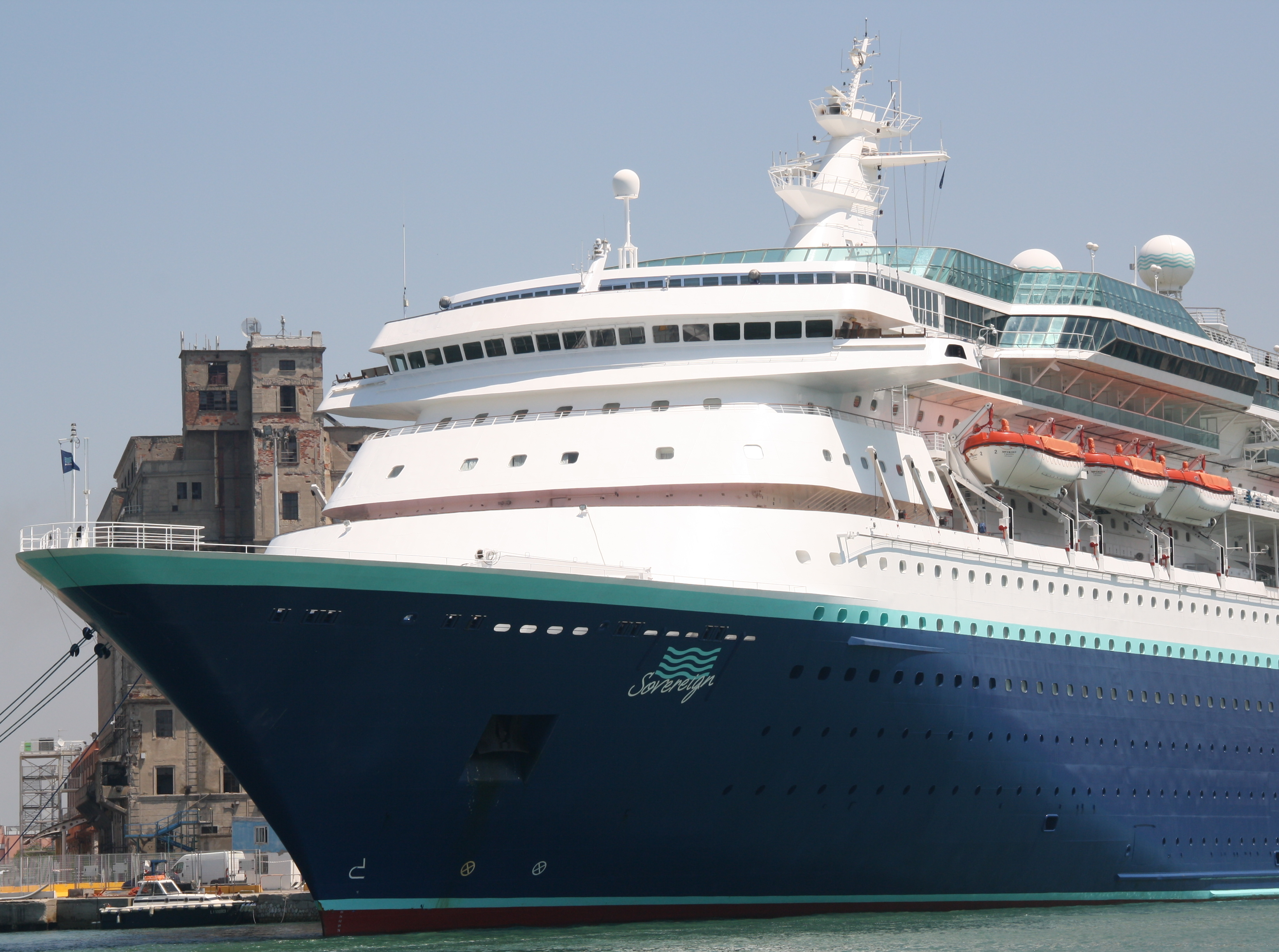 Shipowner: Pullmantur Cruises, Madrid, Spain IMO: 8512281 MMSI: 249539000 Call sign: 9HUE9 Type: Cruise ship Builder: Chantiers de l’Atlantique, Saint-Nazaire, France Yard number: A29 Keel laid: June 10, 1986 Launch date: April 4, 1987 Completion date: January 16, 1988 Port of registry: Valletta Gross tonnage: 73,529 t Net tonnage: 45,194 t DWT: 7,546 t Length overall: 268.32 m Breadth: 36.00 m Draught: 7.82 m Main engine: 4 x Pielstick-Alsthom 9 cyl diesel engines Engine power: 20,476 kW Speed: 21 knots Passengers: 2,852 Crews: 825